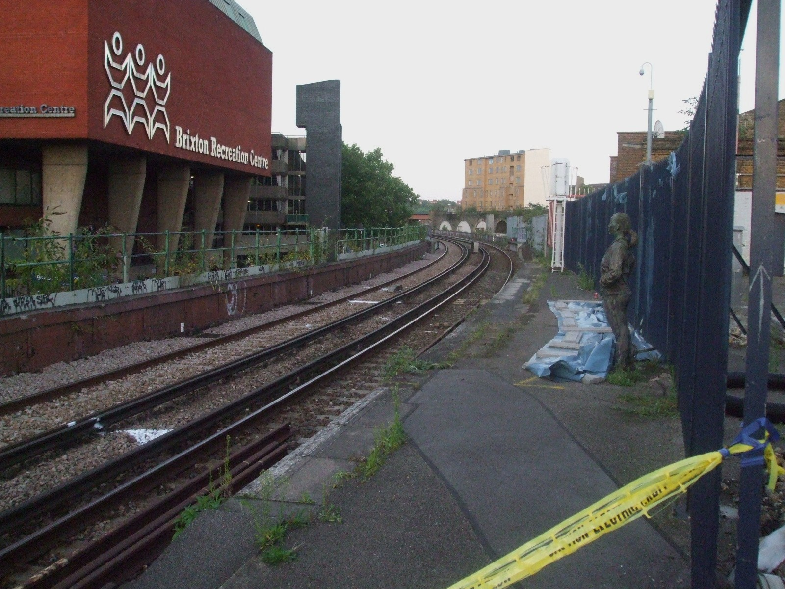 Brixton railway station disused platform with female statue. This is the start of the Catford Loop Line (Southeastern) towards Denmark Hill, diverging from just north of Brixton. Ahead, the South London Line (Southern) can be seen descending from its crossing of the line towards Herne Hill. It too calls at Denmark Hill.